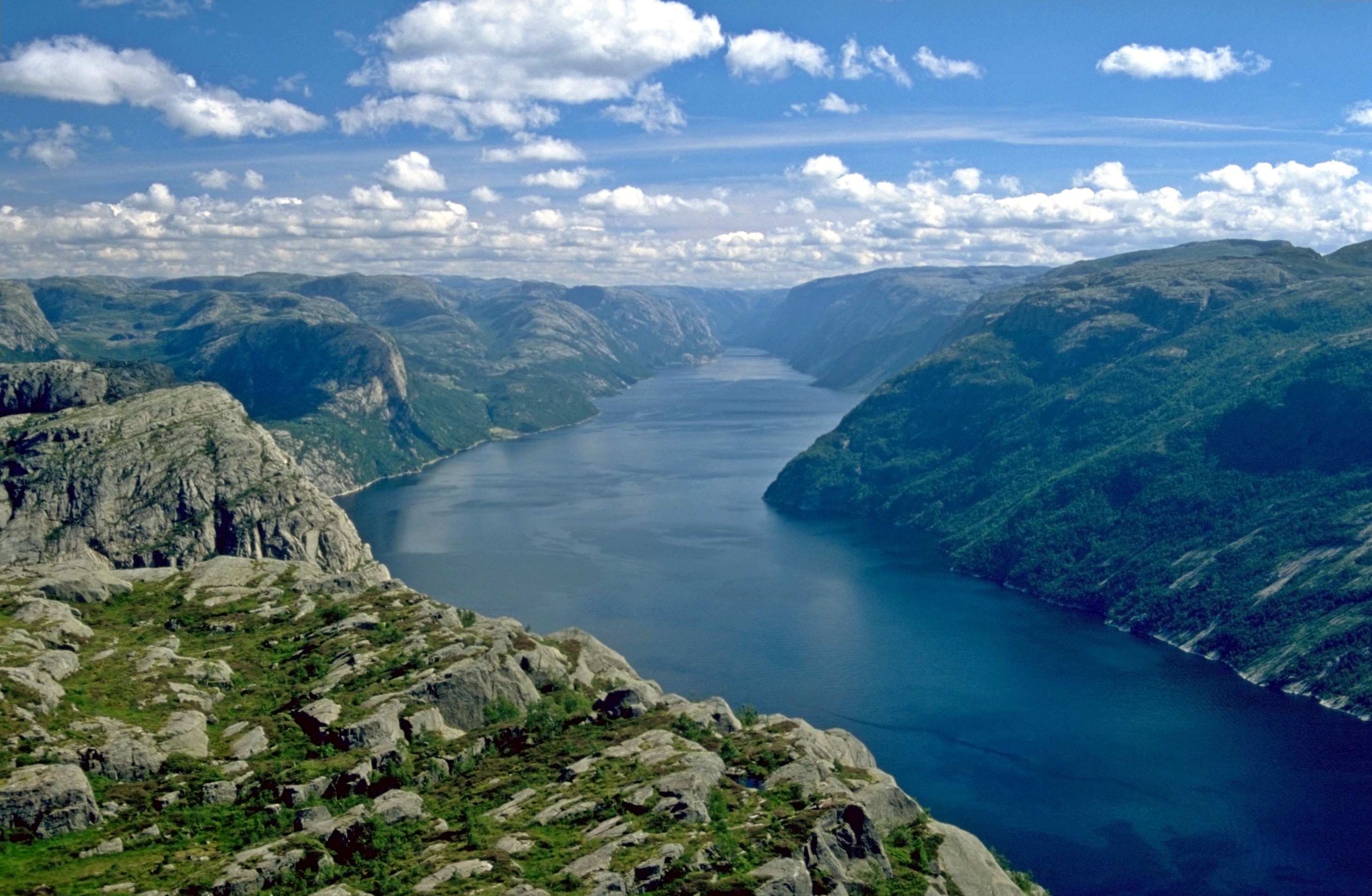 View about Lysfjord Photo was taken using the following technique: Film: Fuji Velvia Lens: 2.4/100 Macro Filter: None Body: Minolta Dynax 7 Support: Manfrotto 190B Image with Information in English Bild mit Informationen auf Deutsch